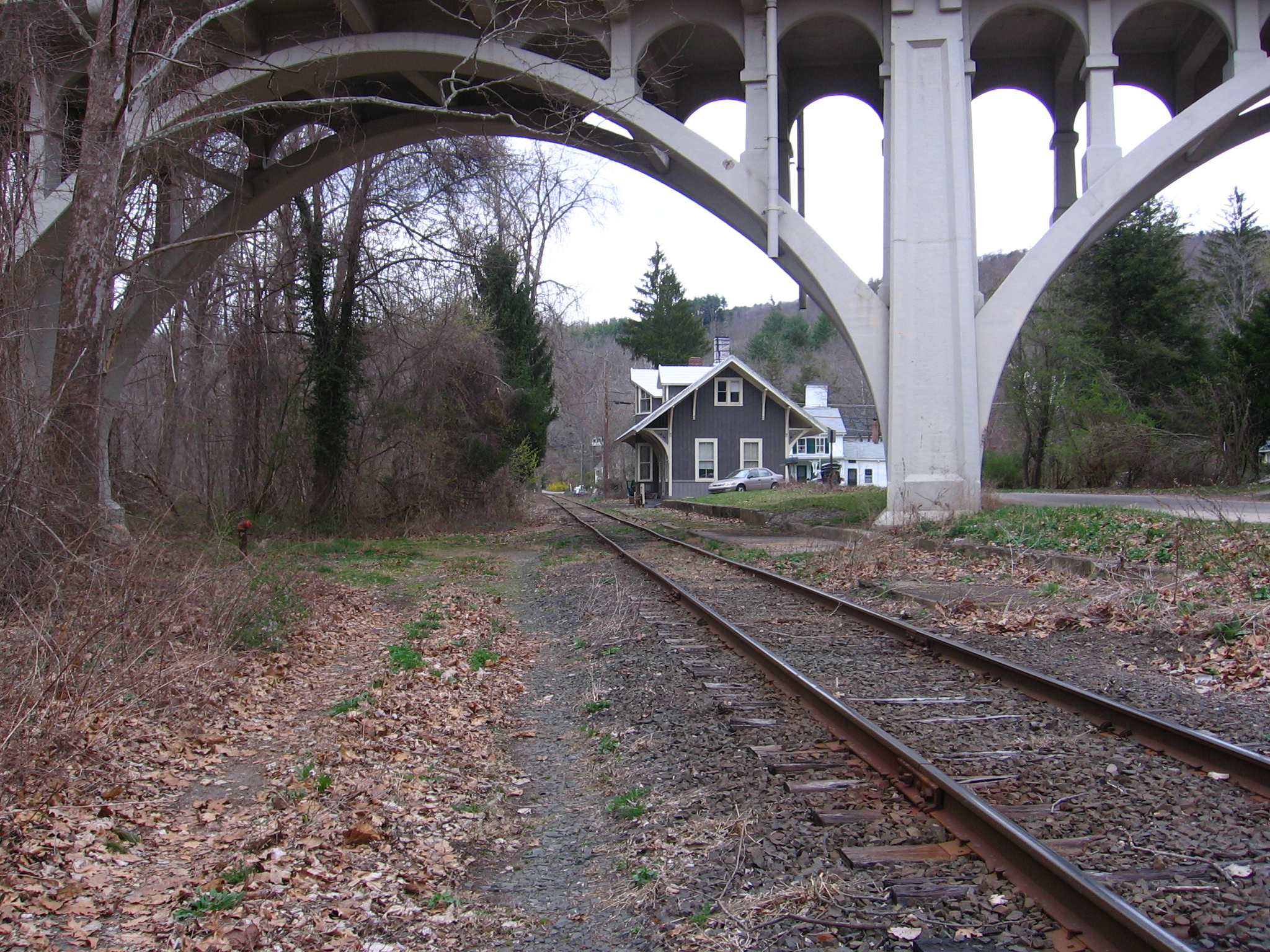 Housatonic Railroad line passes under the NRHP listed bridge and past the NRHP listed station in Cornwall Bridge, Connecticut.